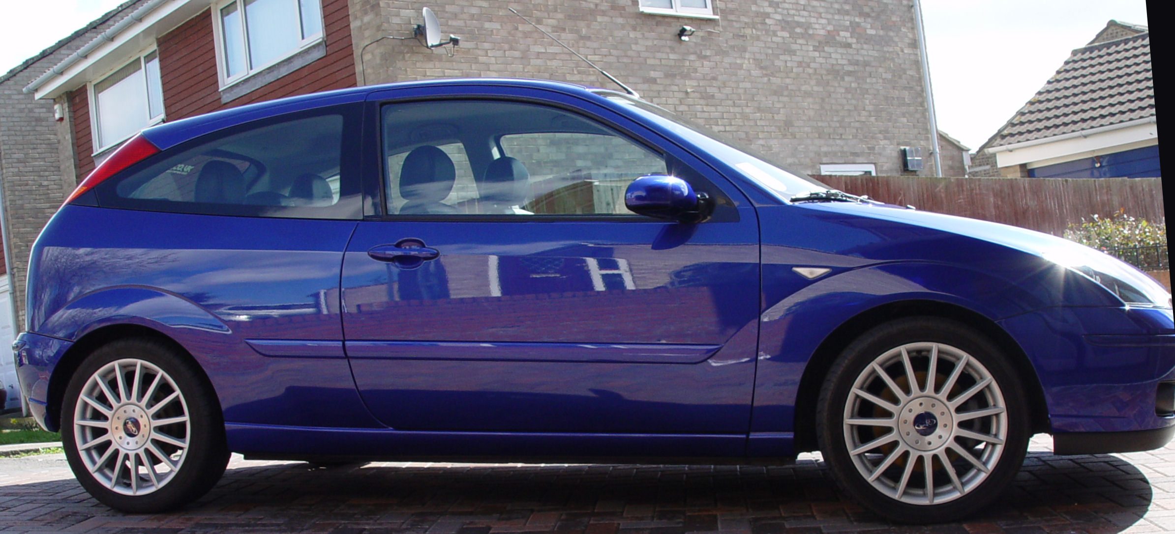 A Ford Focus ST170 in Imperial Blue side view